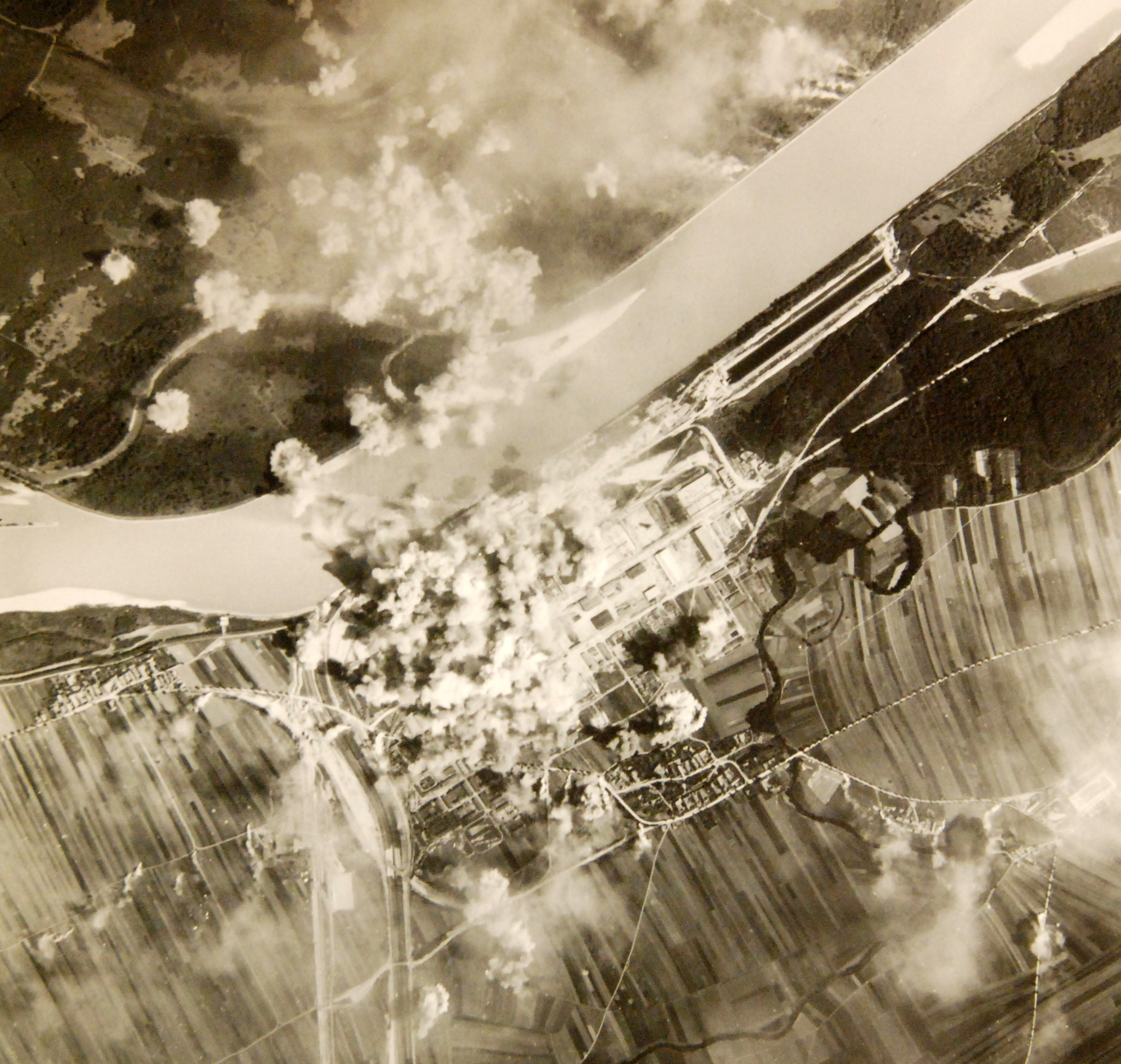 Lot-10424-6: WWII: Bombing of Oil Factories. Bombing of Moosbierbaum, Austria. U.S. Army Signal Corps photograph. Courtesy of the Library of Congress. (2017/04/14).